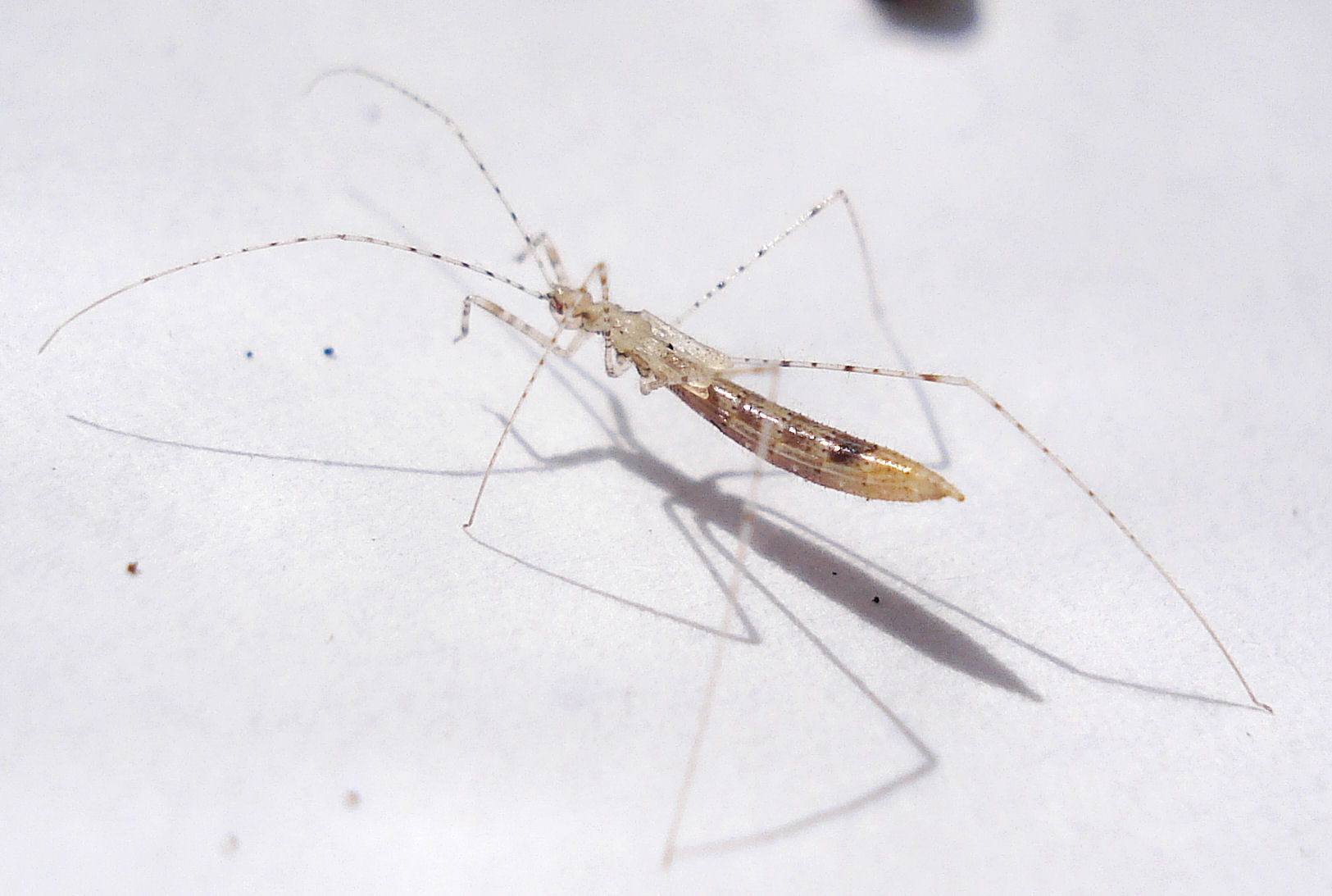 Empicoris vagabundus, nymph